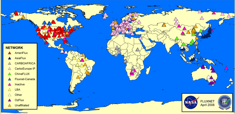 Map showing the distribution of Fluxnet measurement sites